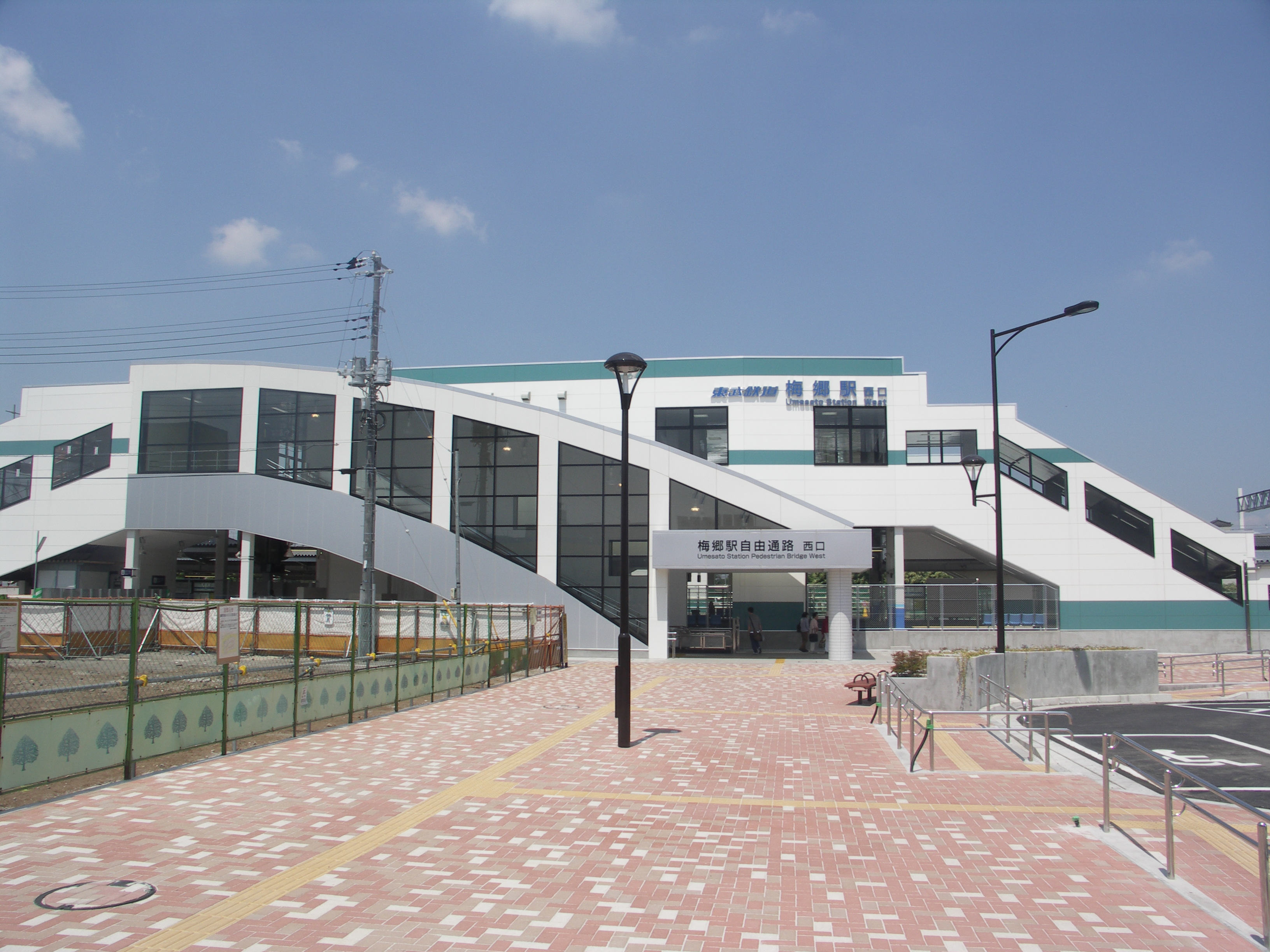 Umesato station, Tobu-Noda Line, Chiba, Japan, 梅郷駅新駅舎